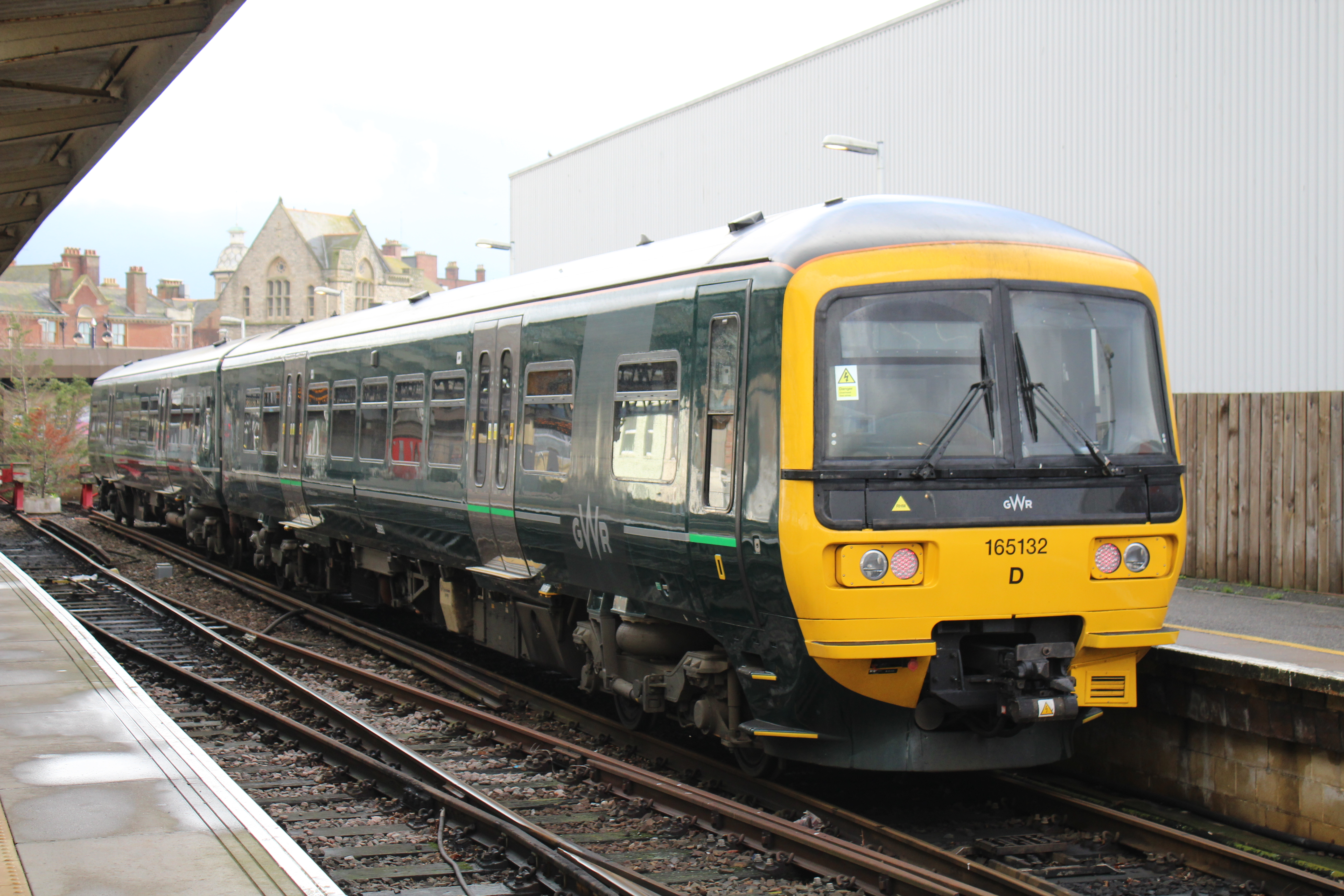 165132 is seen at Weymouth after arrival from Gloucester. The unit has lettered coaches (D as displayed) for reservations on the Cardiff - Portsmouth corridor.